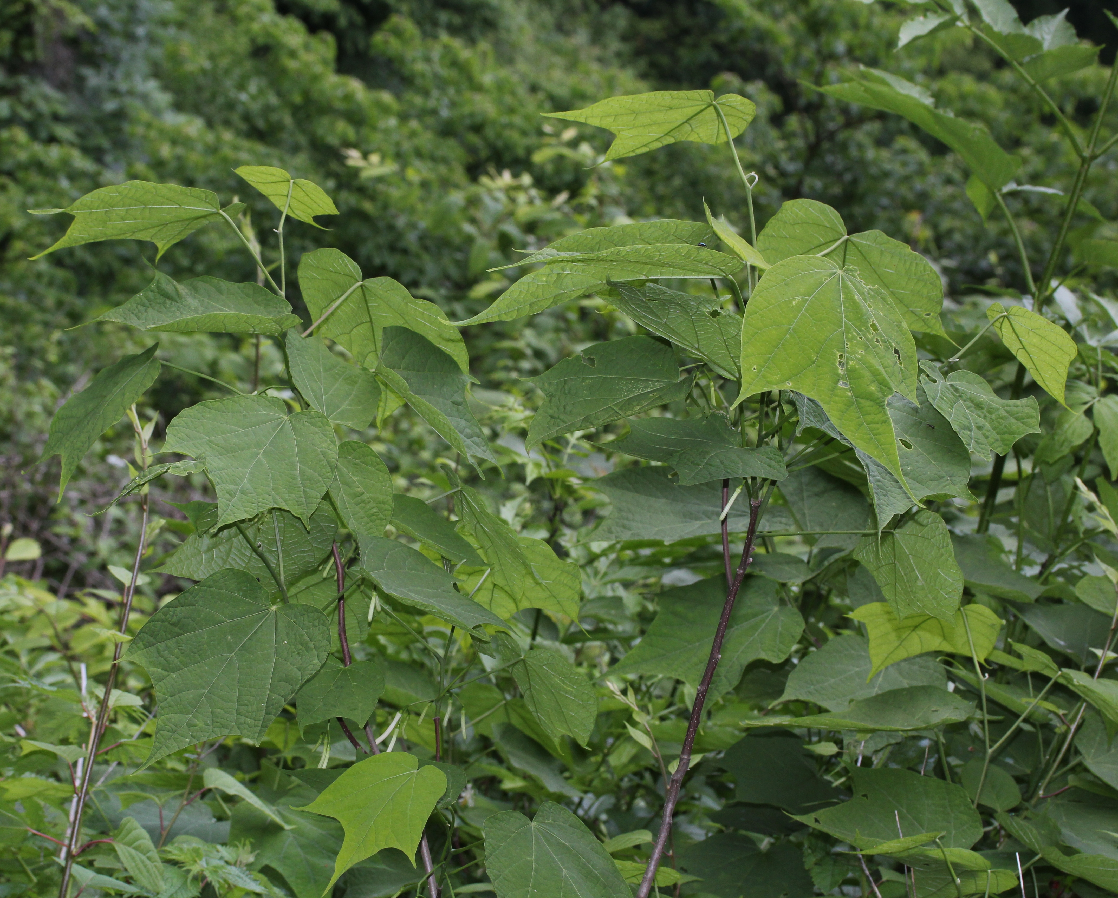 Alangium platanifolium var. trilobatum in Mount Yokoyama, Nagahama, Shiga prefecture, Japan.